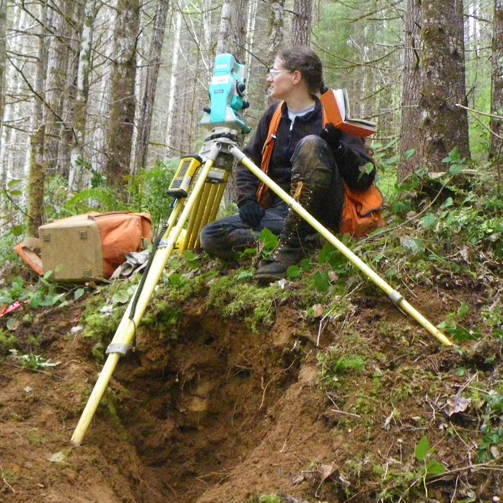 The Bureau of Land Management has a unique mission within the Department of the Interior. It's the scope of our work that sets us apart. We manage activities ranging from outdoor recreation to livestock grazing, from mineral development and energy production to conservation of natural, historical and cultural resources. More than 10,000 employees across the nation take on the responsibility of protecting our resources and how they're used on public lands. Our people take an active role in serving the communities adjacent to our public lands. And we balance the country's population growth with its natural resources - a consistent source of new challenges for our creative employees to face. Get to know more about our multiple-use mission and where we work through these photos of #BLMcareers. Photo by BLM Oregon.